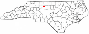 Category:North Carolina Dot Maps